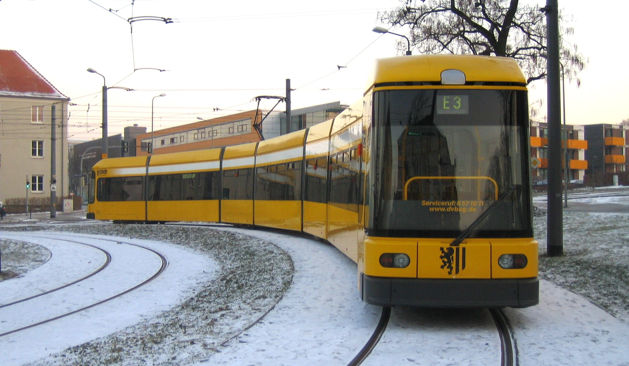 Low-floor tram NGT8DD of the Dresden Transport Authorities Line 3 in Dresden-Plauen (stop Nöthnitzer Straße)